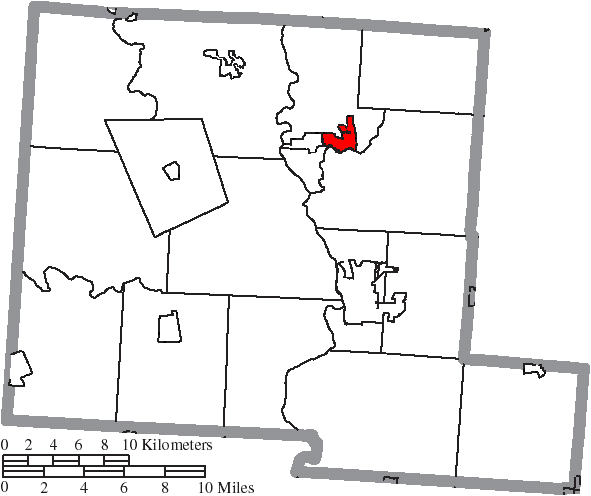 Map of the municipal and township boundaries of Pickaway County, Ohio, United States, as of the 2000 census, with the location of the village of Ashville highlighted. Township borders are shown only in unincorporated areas in order to differentiate incorporated and unincorporated areas more clearly.